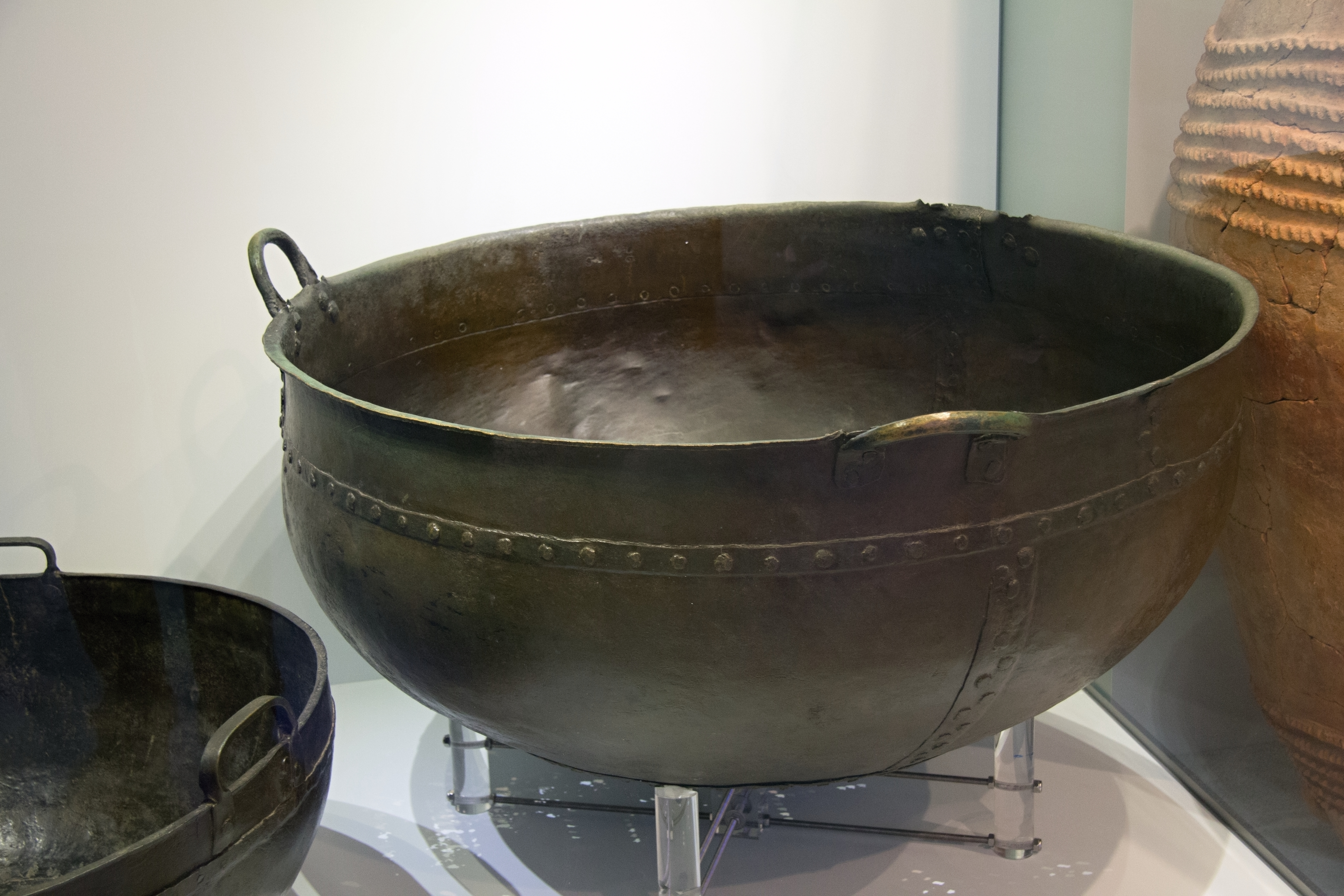 Great bronze cauldrons from Tylissos (Crete), probably 1600-1300 BC. Archaeological Museum of Heraklion.